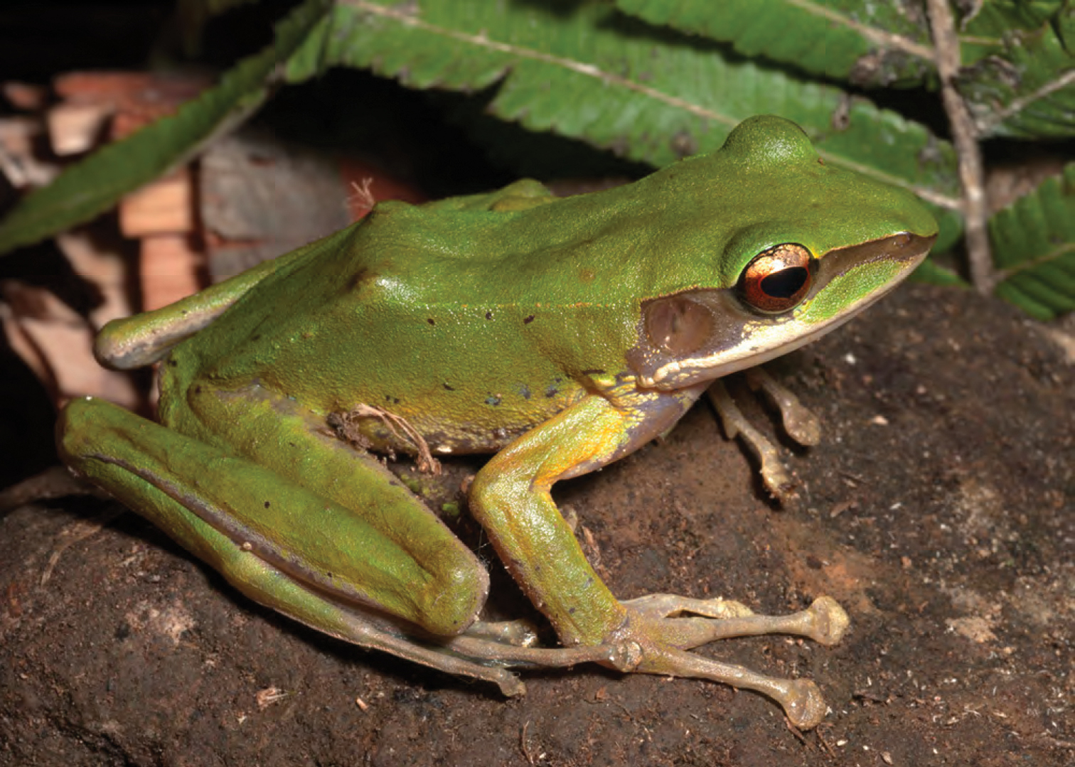 Sanguirana luzonensis female (KU 330408) from mid-elevation, Mt. Cagua. Photo: RMB.